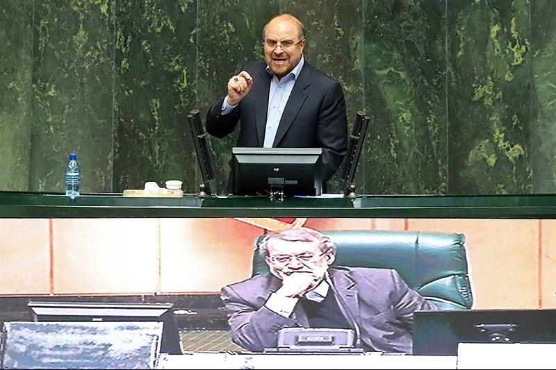 Plasco disaster report inIslamic parlement Iran